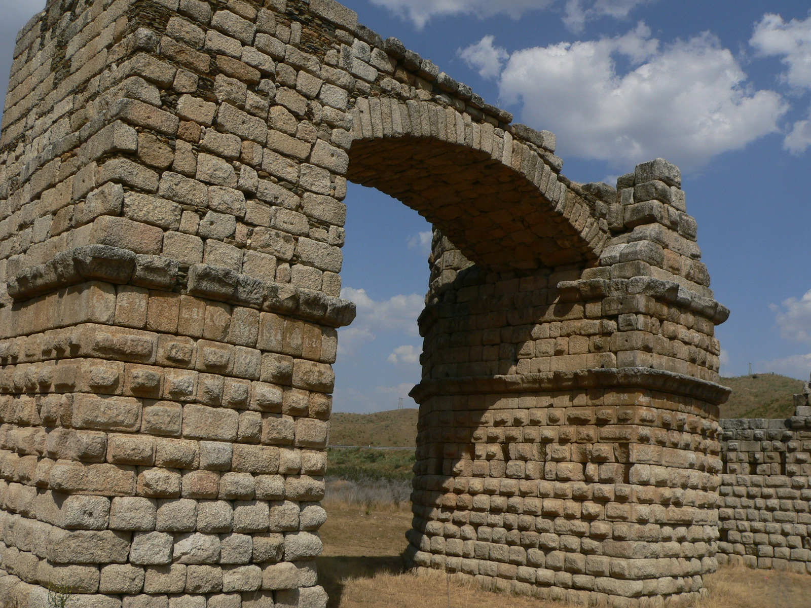 The remains of the Roman Puente de Alconétar (Alconétar Bridge), Cáceres Province, Spain. The ancient segmental arch bridge originally crossed the Tajo river near the village of Garrovillas. In 1972, during the construction of the Alcántara reservoir, the structure was moved 6 km upstream to its current location.